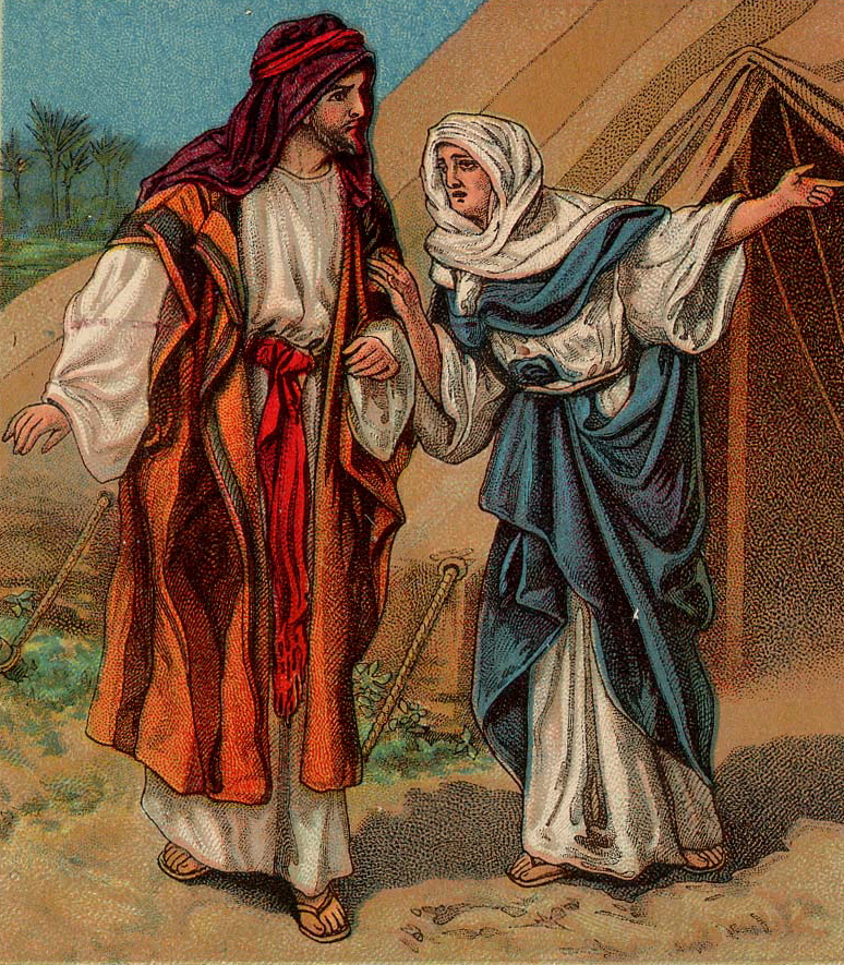 Jacob and Rebekah, as in Genesis 27:15-23, 41-45; illustration from a Bible card published 1906 by the Providence Lithograph Company